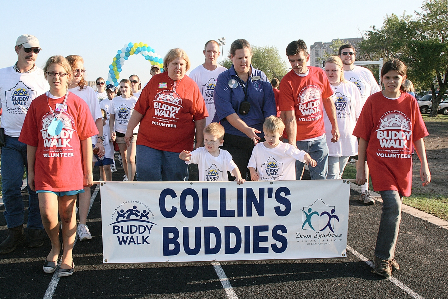 Collin's Buddies was one of many teams formed to support individuals with Down syndrome that walked the one-mile loop around the BG Johnson Track at Fort Sam Houston on Sept. 26.